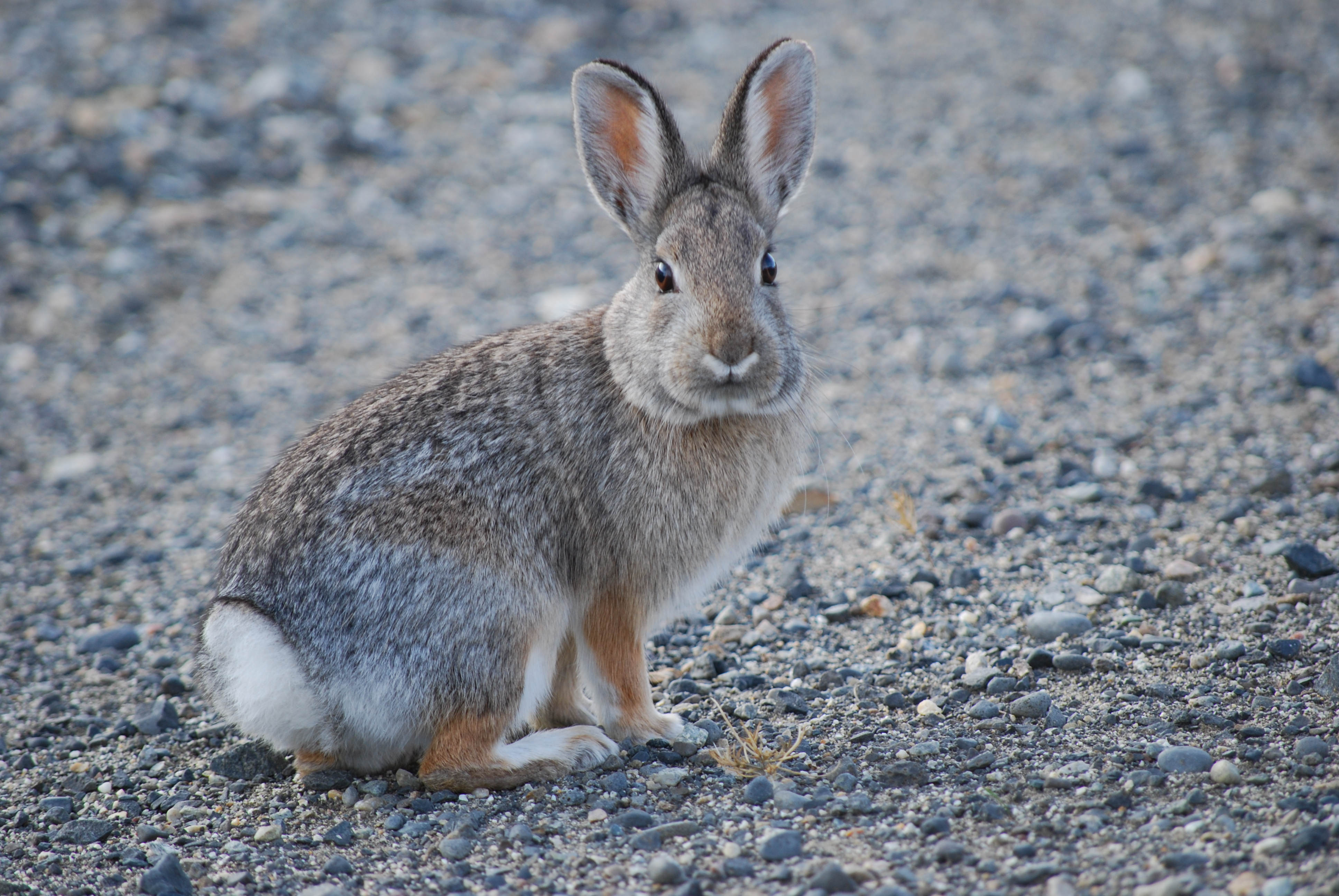 Mountain/Nuttall's Cottontail in Washington State